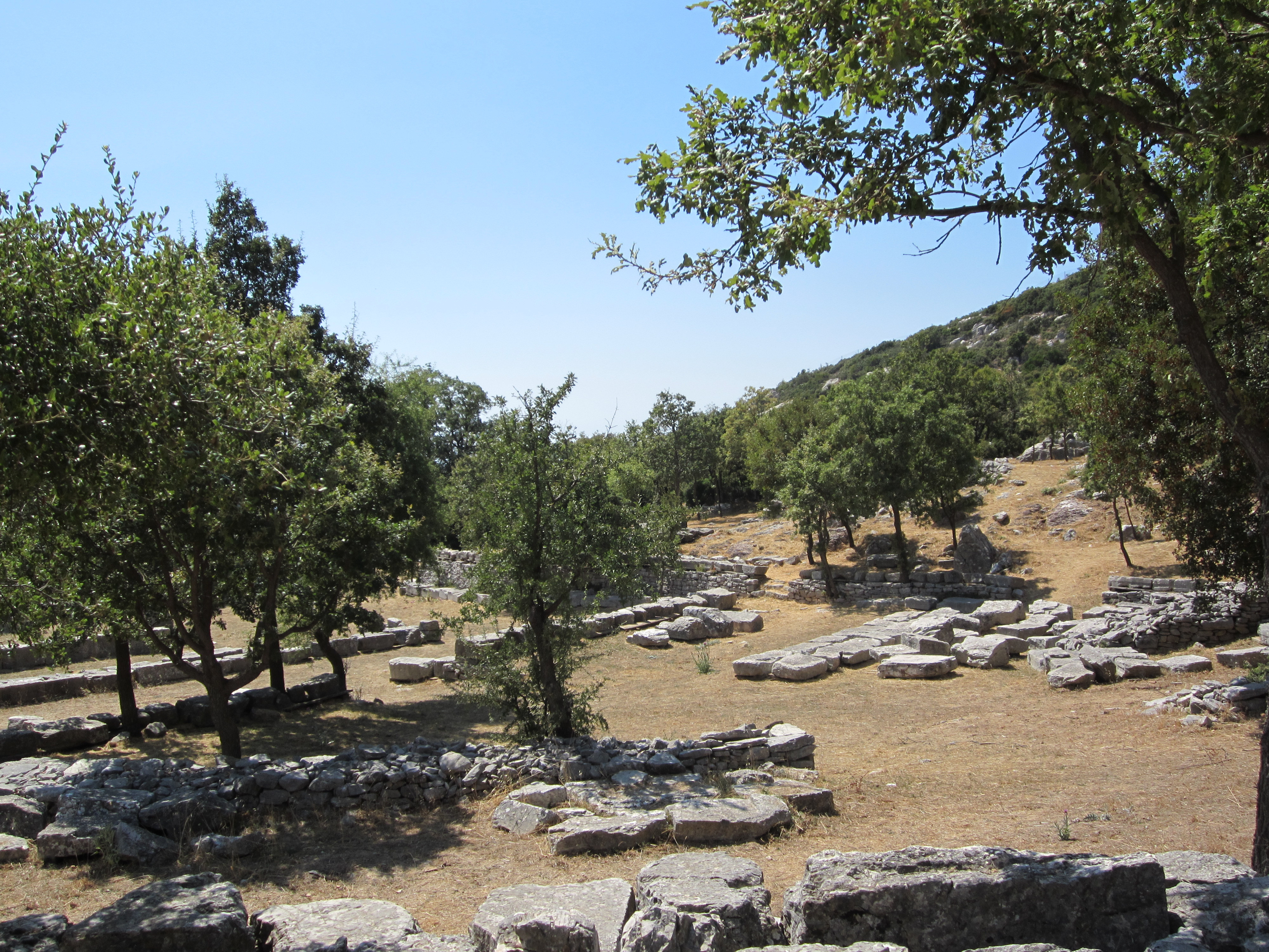 Archaeological area of Bassae (Bassai) around the Temple of Apollo Epicurius (Apollon Epikurios), Greece.